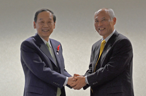 Yōichi Masuzoe, Governor of Tōkyō Metropolis, met Shun'ichi Yamaguchi, Minister of State for Science and Technology Policy, at the Headquarters of the National Institute of Information and Communications Technology in Koganei City, Tōkyō Metropolis on October 22, 2014.(For terms of use, see 内閣府ホームページ利用規約 - 内閣府.)